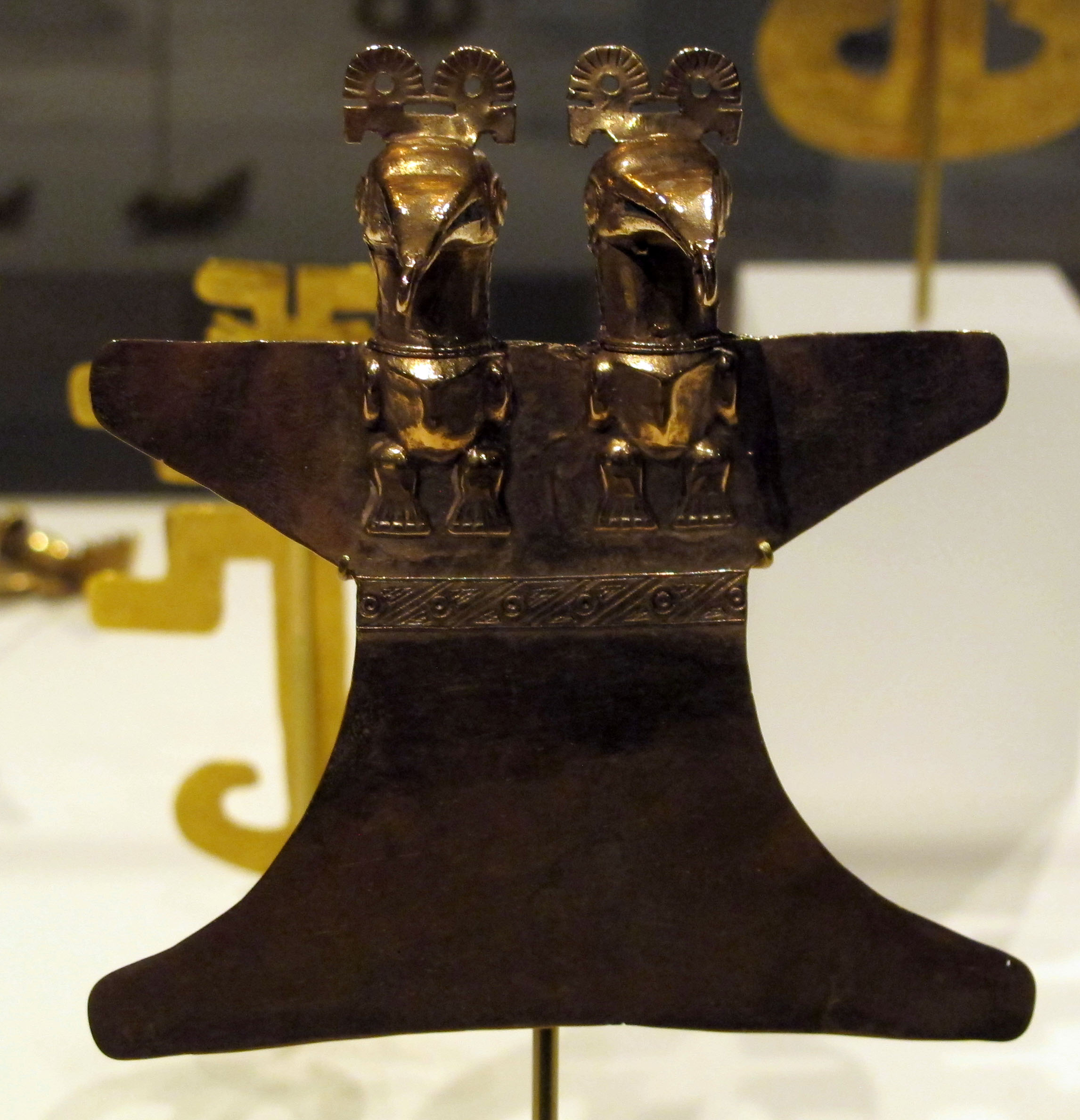 Pre-Columbian jewellery in the Metropolitan Museum of Art